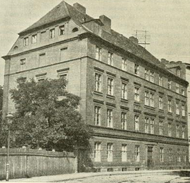 A photo of the Jewish Theological Seminary of Breslau, published annonymously in a public domain book printed in 1904. Found at the Internet Archive.